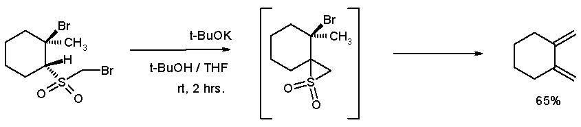 Ramberg Backlund synthesis of Dimethylenecyclohexane